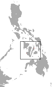 Philippine Bare-backed Fruit Bat (Dobsonia chapmani) range